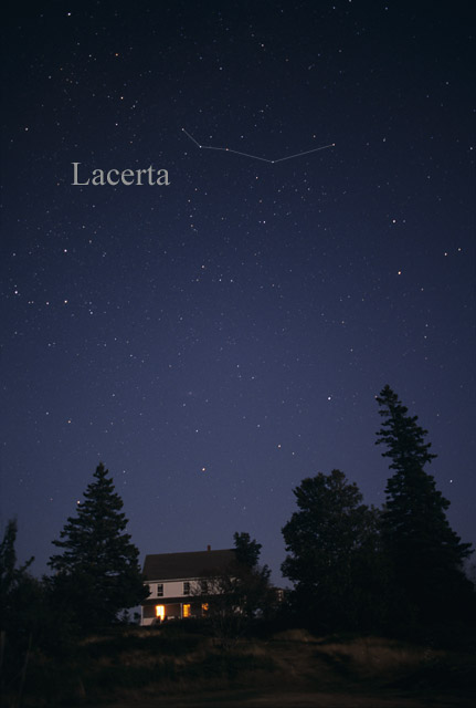 Photography of the constellation Lacerta, the lizard